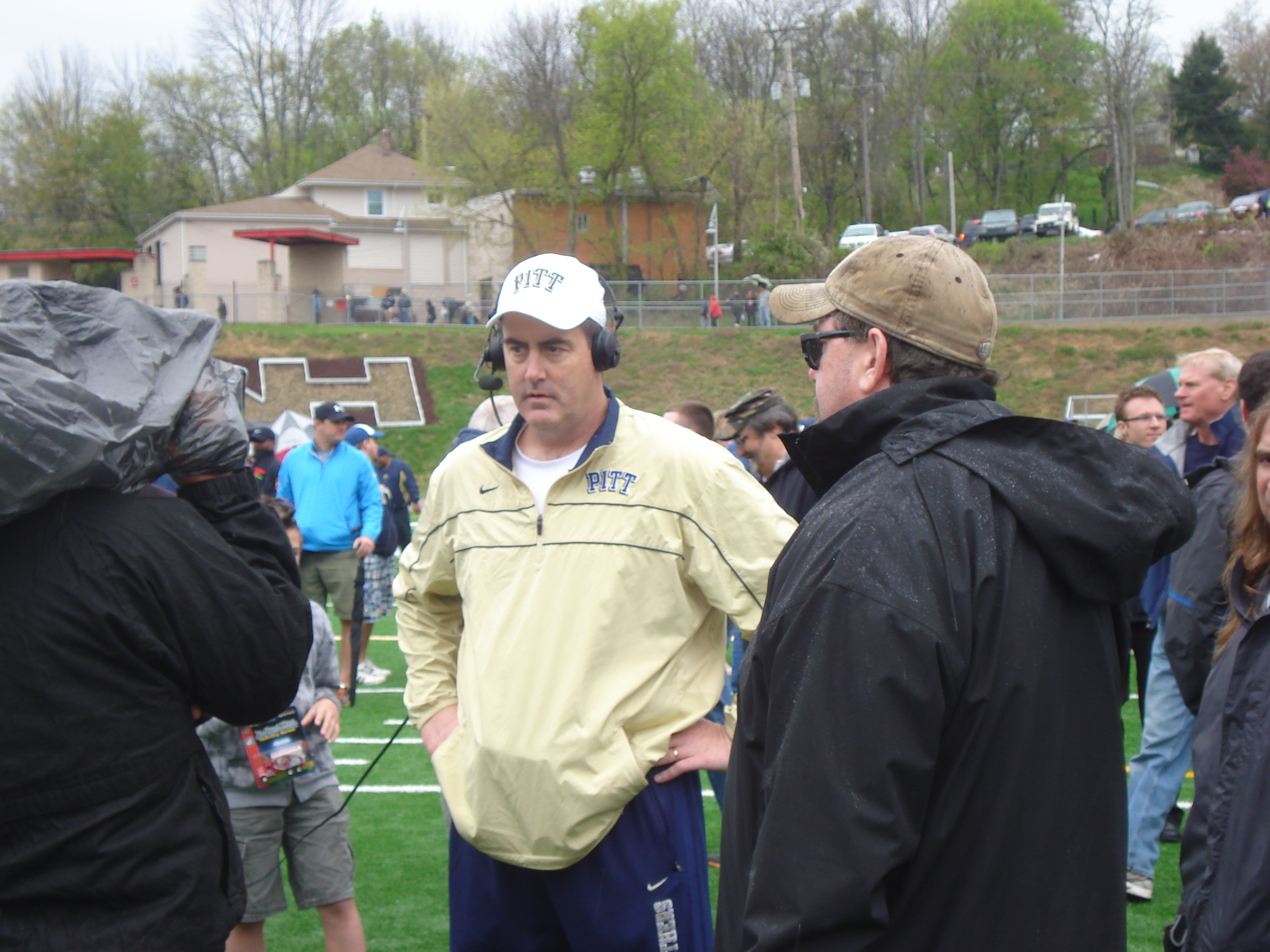 Pittsburgh Panthers head coach, Paul Chryst, at the conclusion of his first Spring Game as head coach.